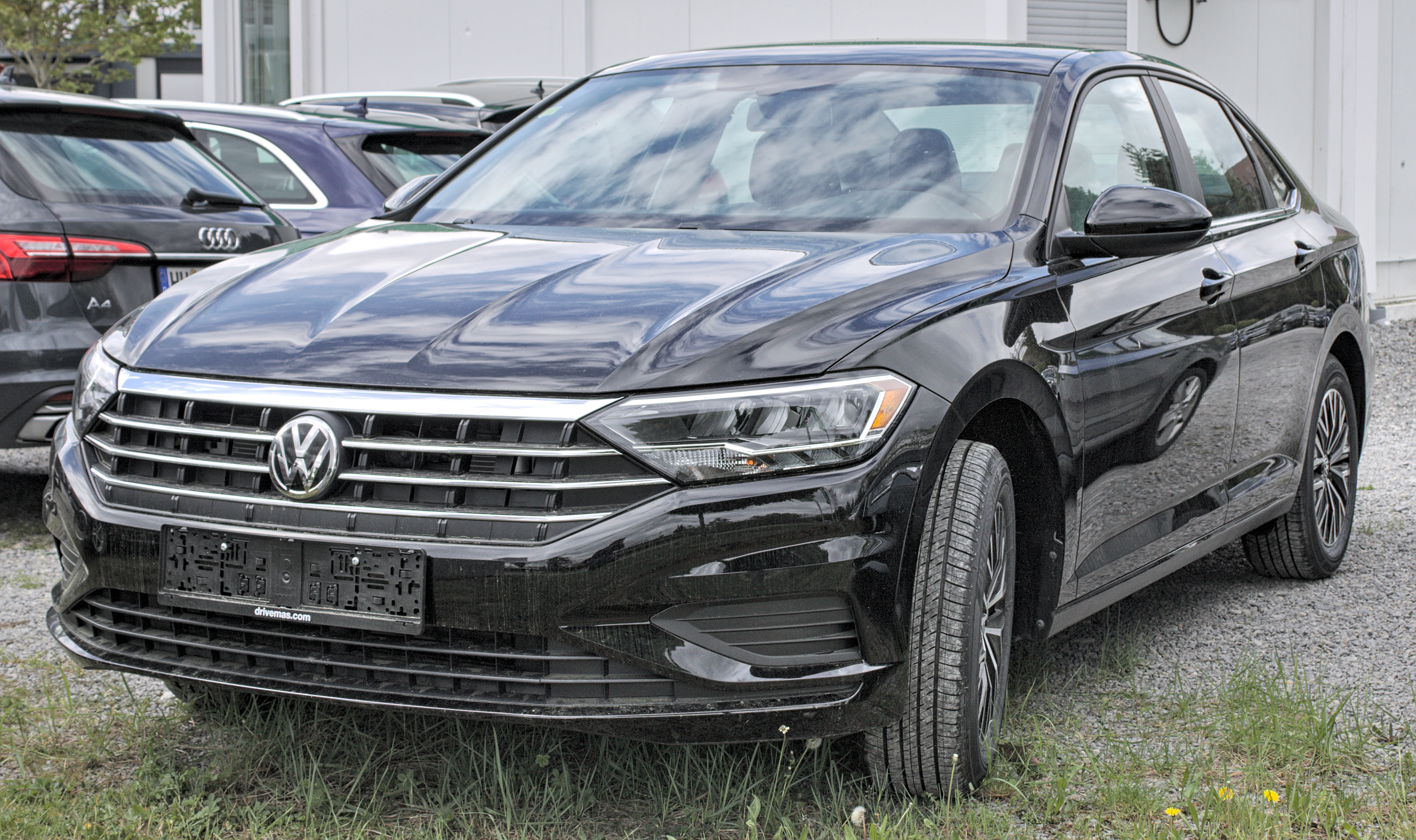 Volkswagen_Jetta_VII in Stuttgart-Vaihingen